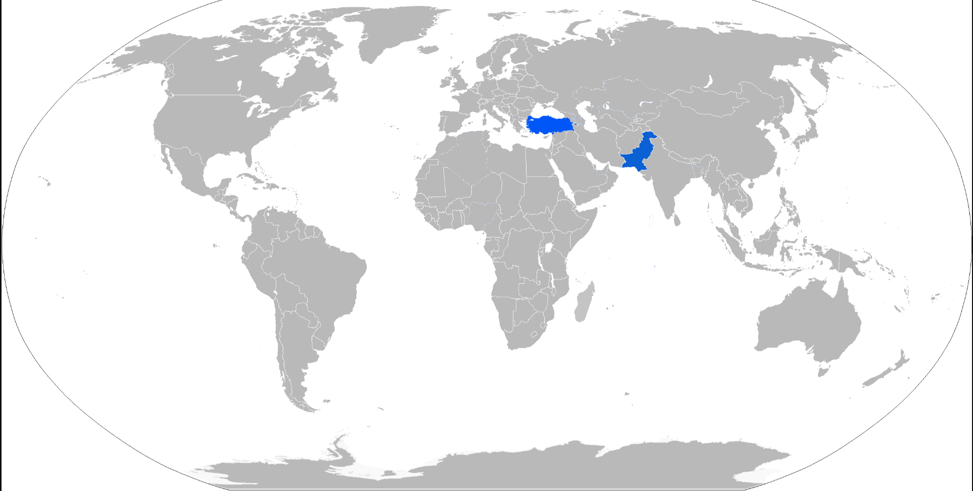 T129 Atak Orders